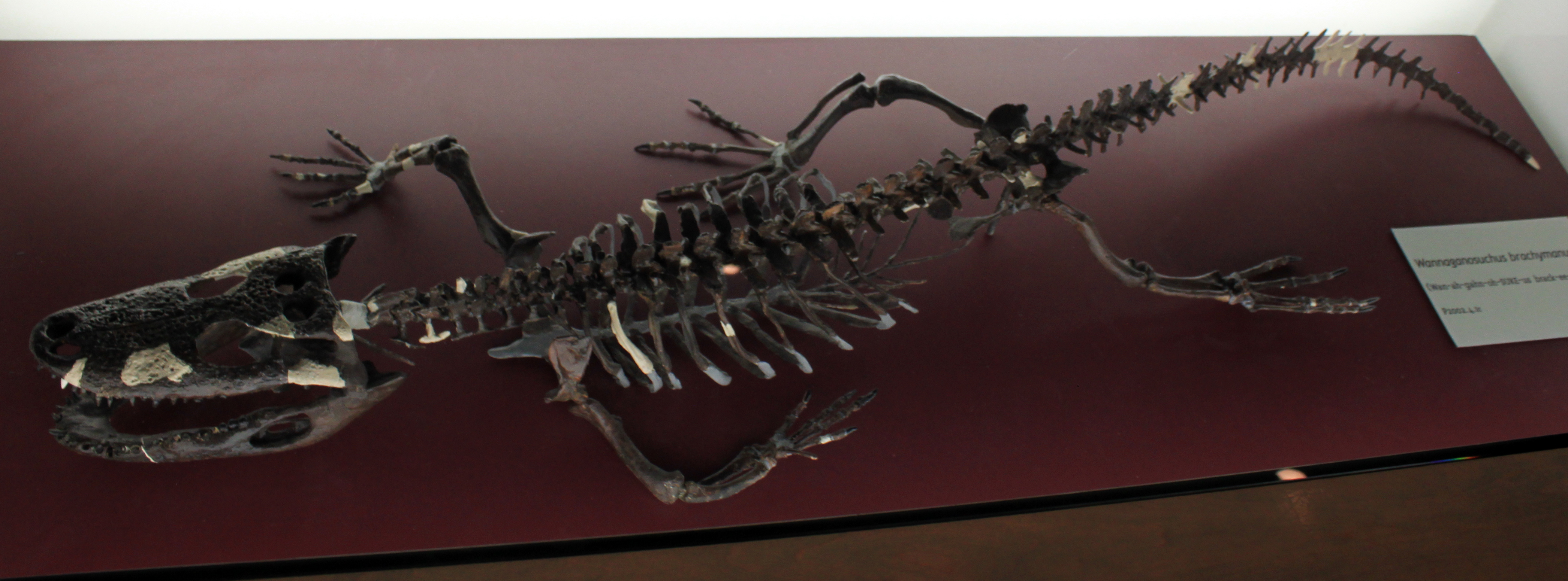 Taken at the Minnosota Science Museum: Dinosaurs and Fossils Gallery. Creative Commons licensed photo by . Please feel free to take and reuse for any purpose.